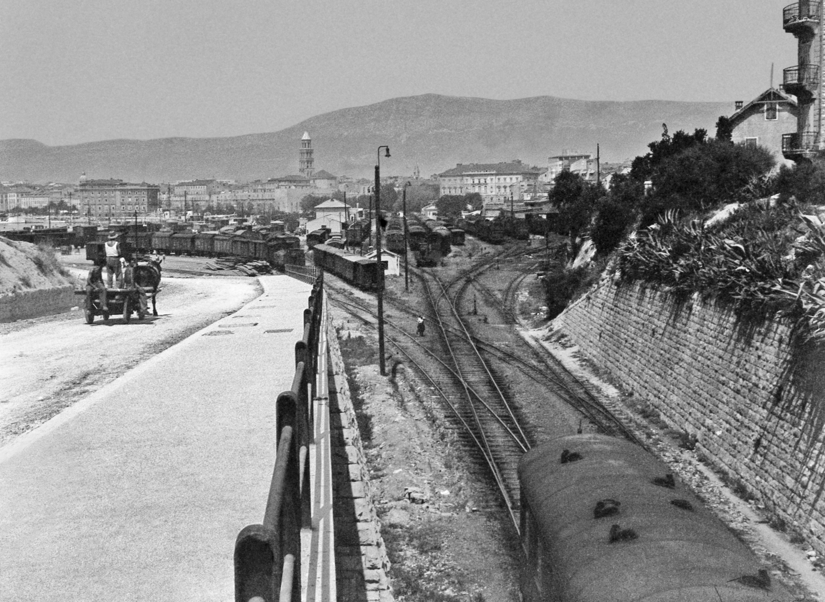 Train station Split with 1435mm and 760mm gauge tracks in 1952